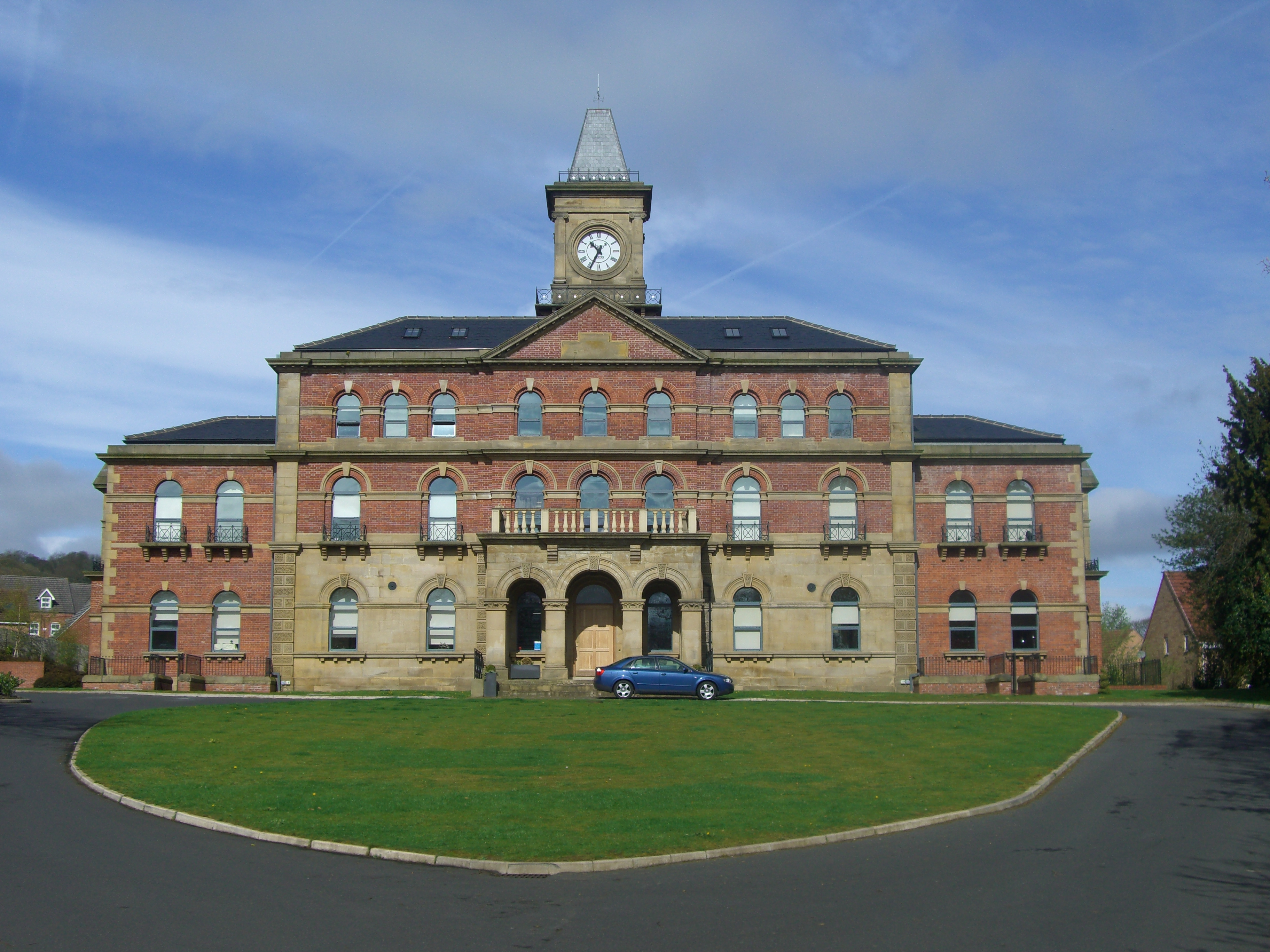 The former Administration Building and clock tower at the former Middlewood Hospital now residential apartments.